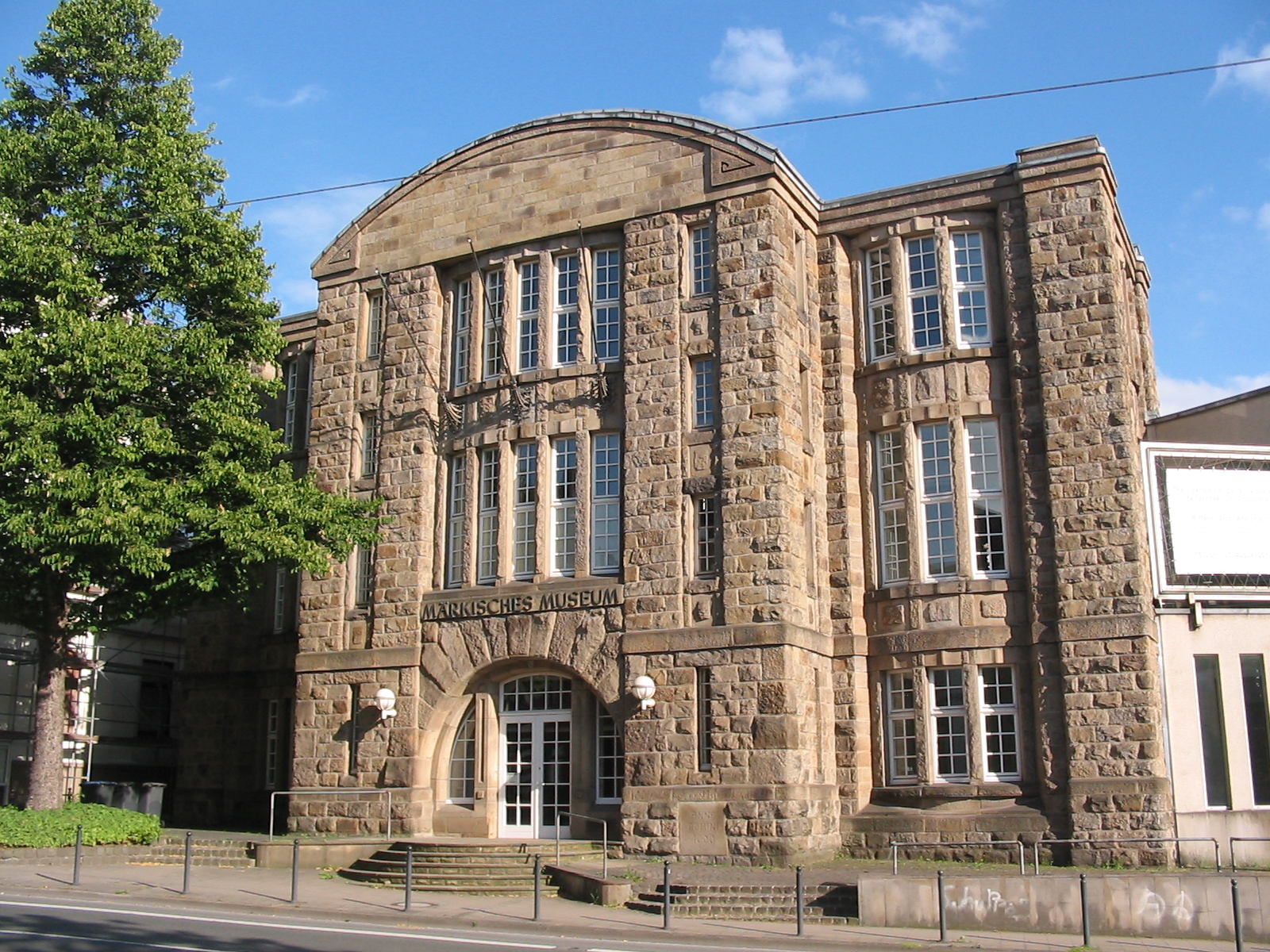 museum Märkisches Museum in Witten